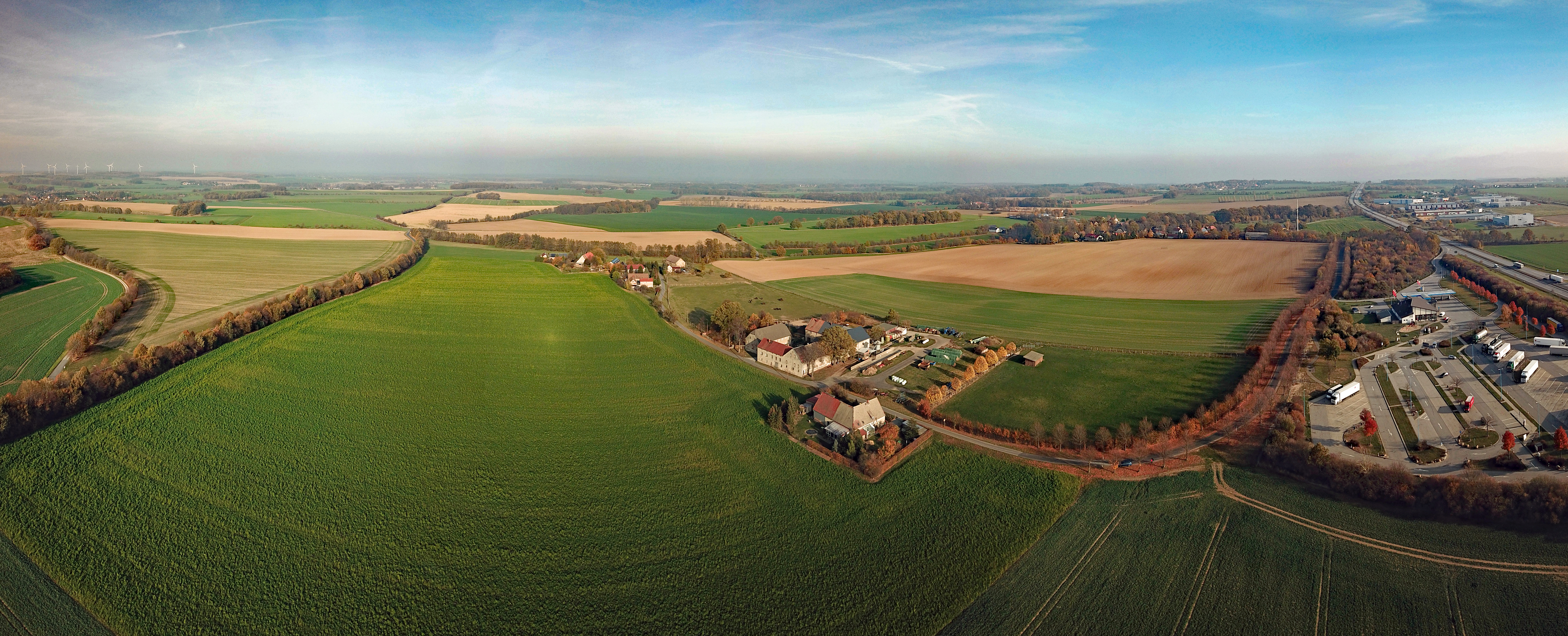 Löschau (Bautzen, Saxony, Germany) Hornjoserbsce: Powětrowy wobraz Lešawy